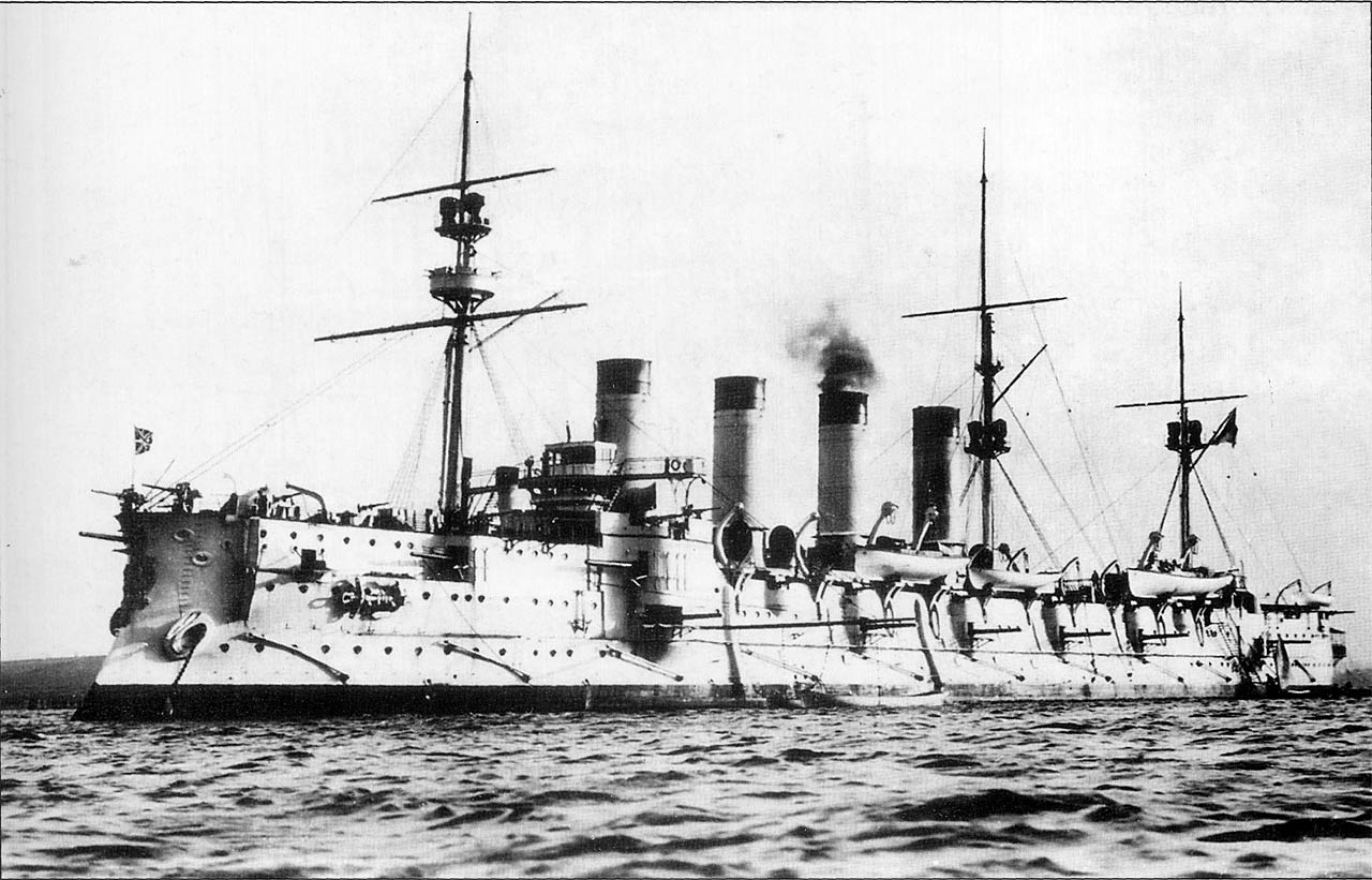 Imperial Russian armoured cruiser Gromoboi.